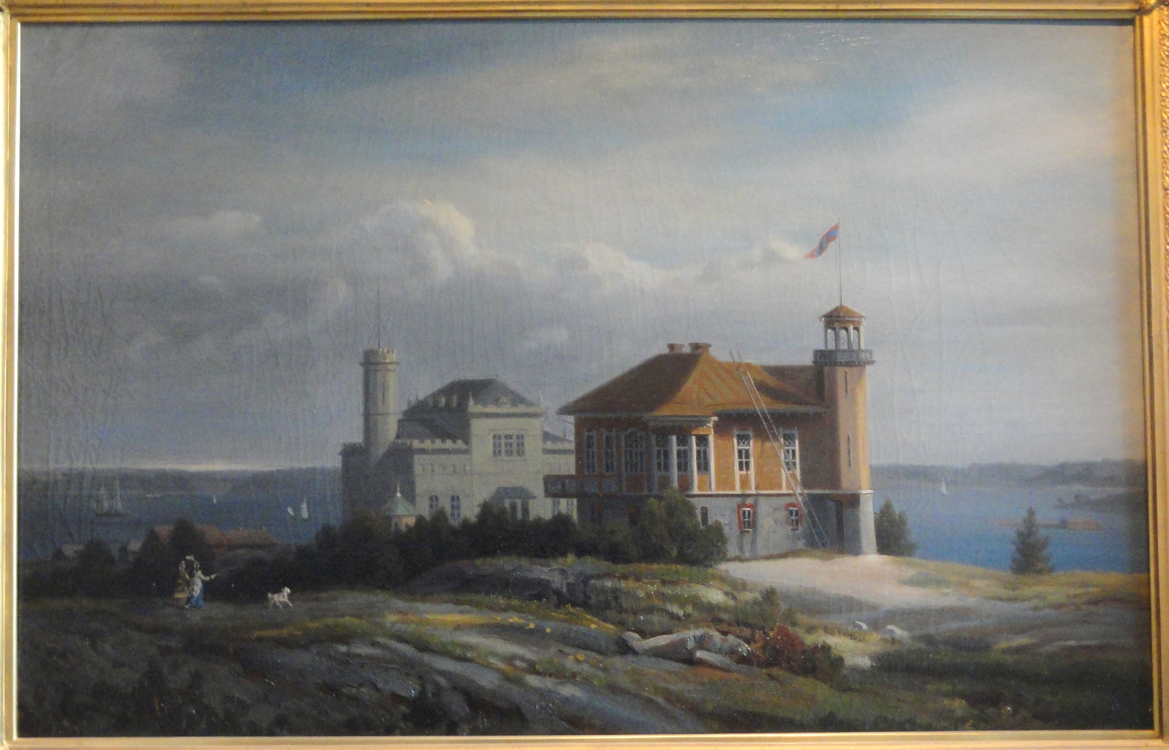 Cygnaeus' Villa in the 1870s